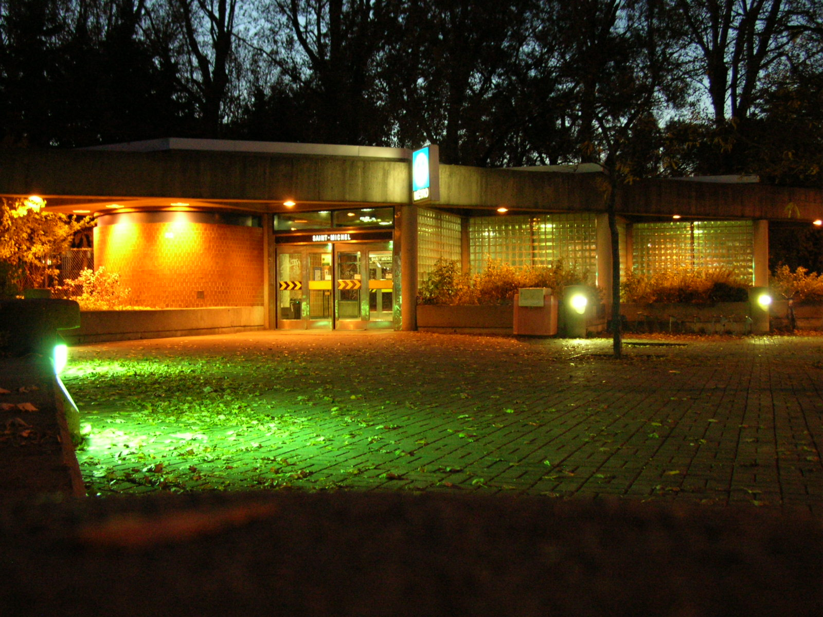 Saint-Michel Metro west entrance in Montreal, Canada.